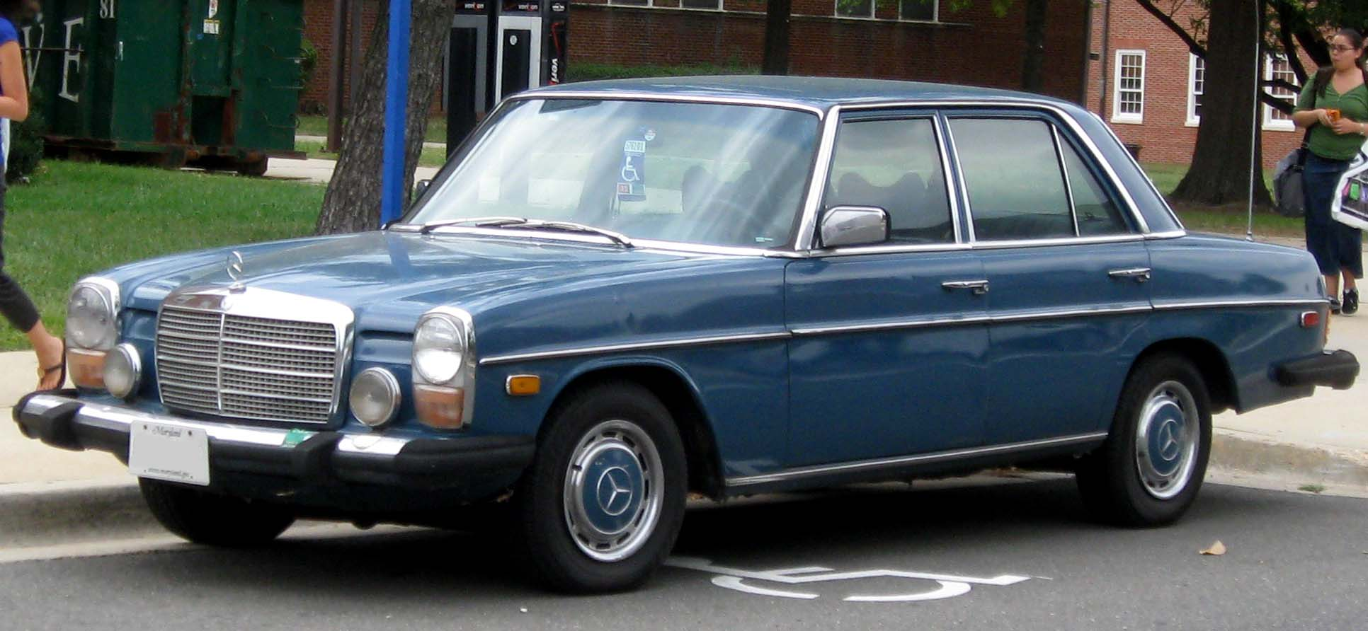 Mercedes-Benz 240D photographed in College Park, Maryland, USA.